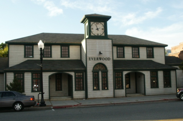 Picture of "downtown Everwood, Colorado" in downtown Ogden, Utah.